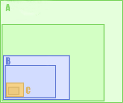 The comparative differences in frame size from compact camers through film and DSLR to medium format.A:medium formatB:35mm & DSLRC:Compact 中文（中国大陆）: 从中画幅到袖珍相机不同的感光元件规格比较A:中画幅B:35mm 及数码单反C:袖珍型消费级数码相机